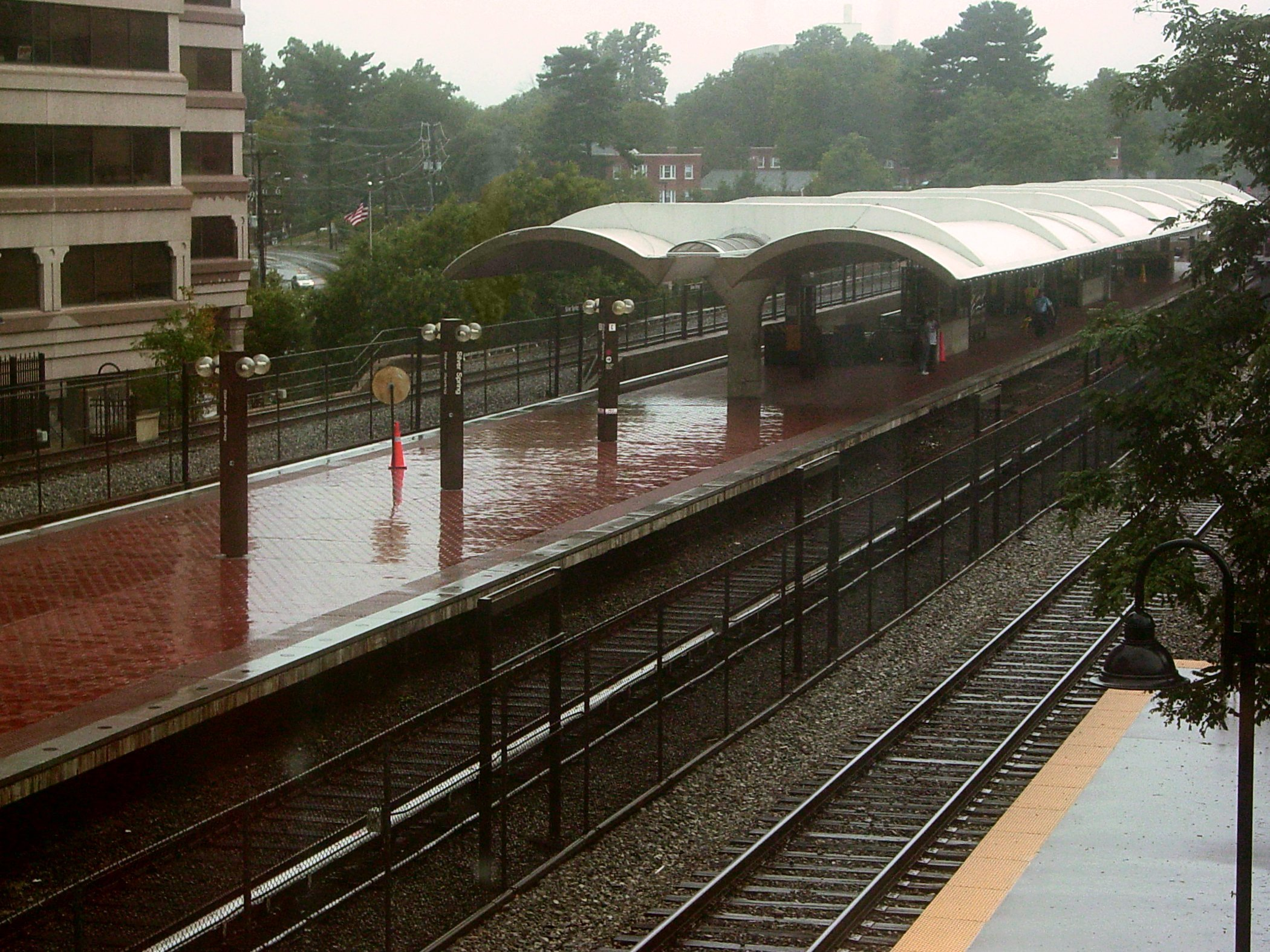 Washington Metro, Silver Spring station. The outside tracks are of the CSX Metropollitan Subdivision.